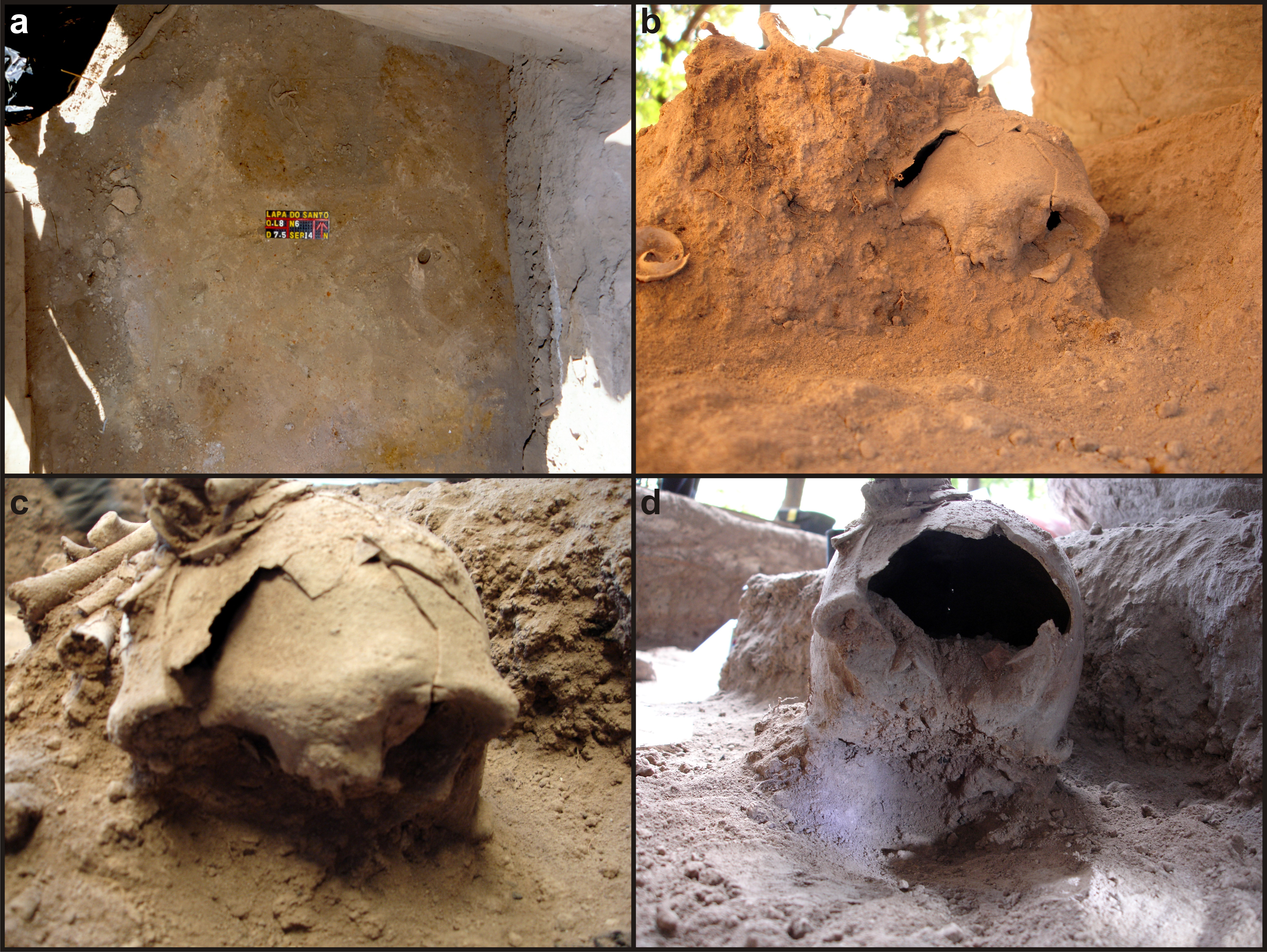 Lapa do Santo - Sepultamento 14 - Fotos de diferentes posições e em diferentes momentos da escavação.Repare na presença de um crânio adulto sobre o qual foram colocados diversos ossos do pós-crânio de duas crianças. Esses ossos humanos foram escavados do sítio arqueológico da Lapa do Santo, na região de Lagoa Santa em Minas Gerais.